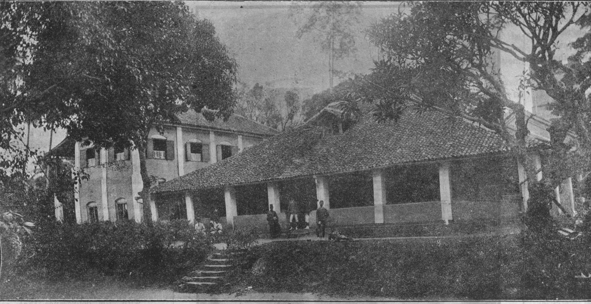 Dharmaraja College, Kandy “Old Buldings.”